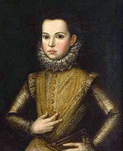 Victor Amadeus, Prince of Piedmont.